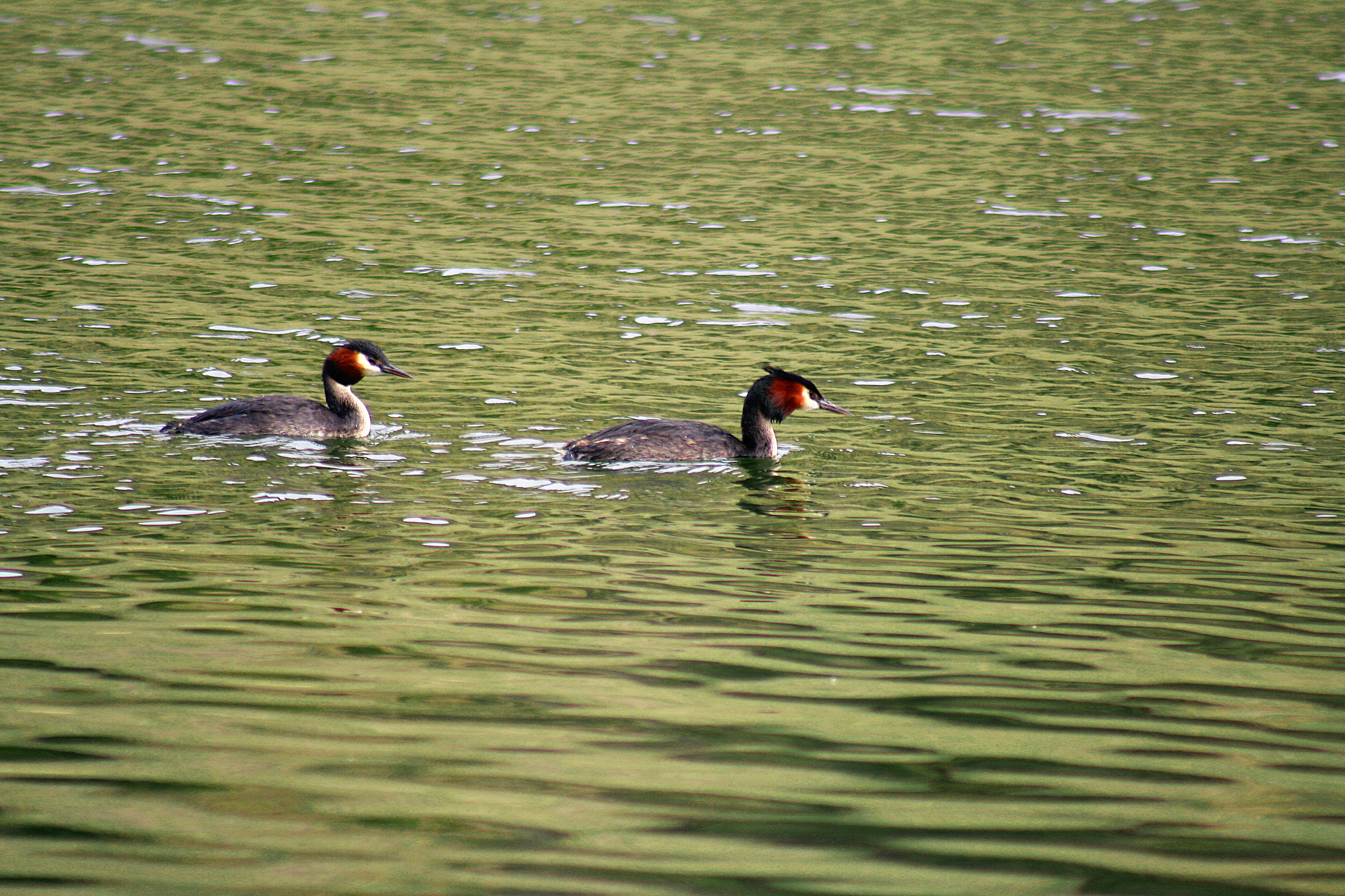 Two Australasian Crested Grebes (Podiceps cristatus australis) on Lake Johnson